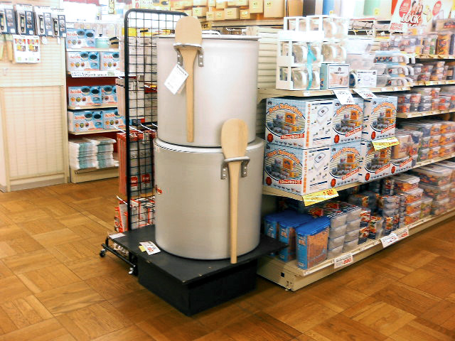 The waistless pans marketed.